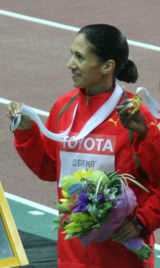 World Athletics Championships 2007 in Osaka - After the victory ceremony for the women's 800 metres, Hasna Benhassi (silver).